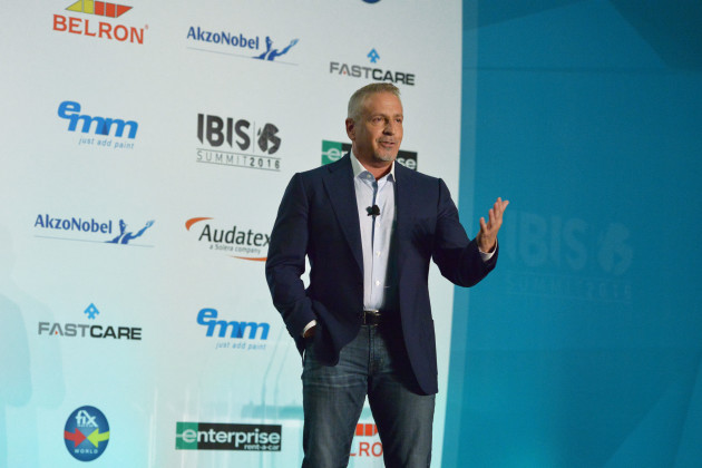 Tony Aquila - founder, chairman and CEO of Solera